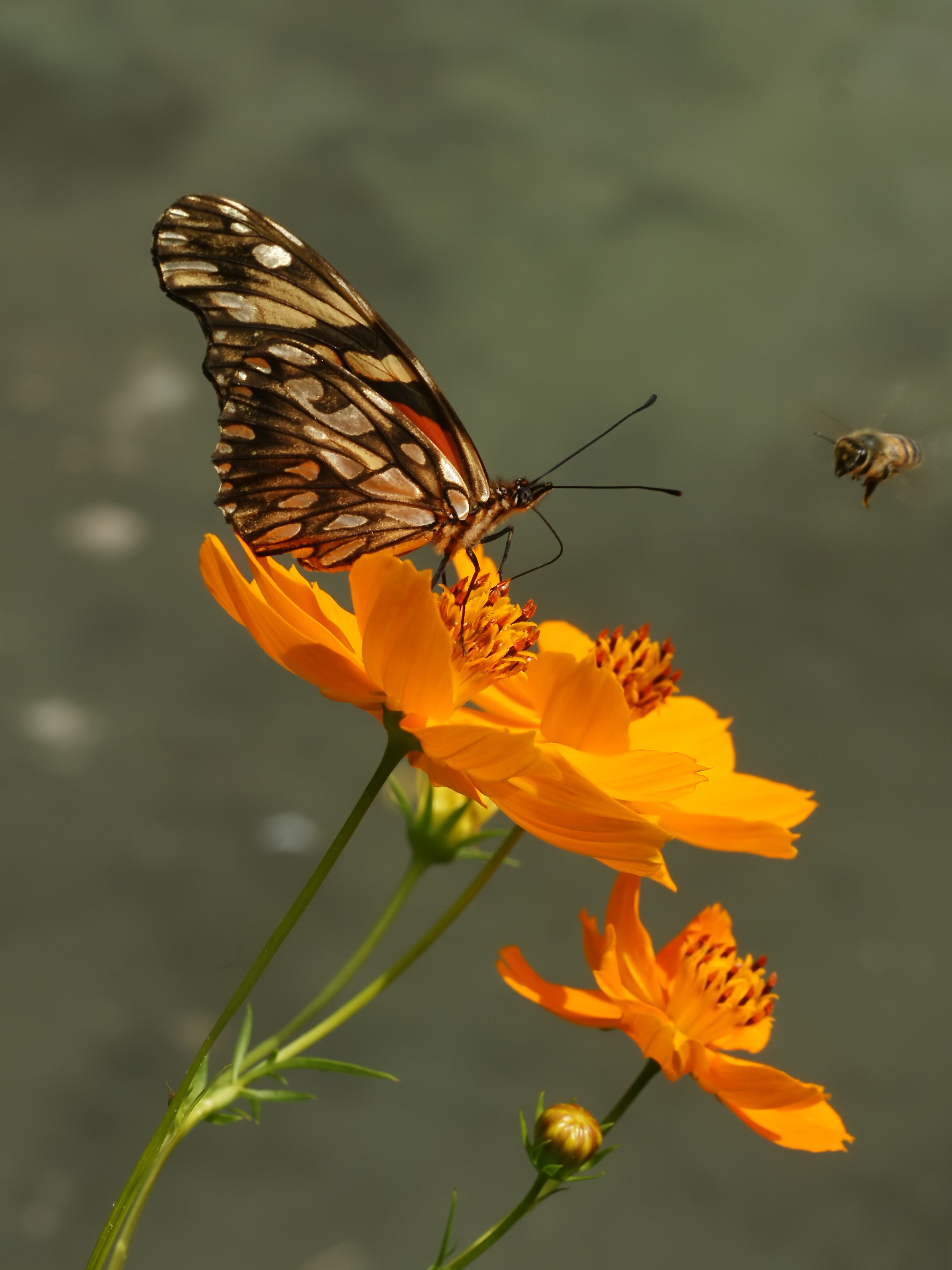 Juno Longwing at La Garita, Alajuela, Costa Rica